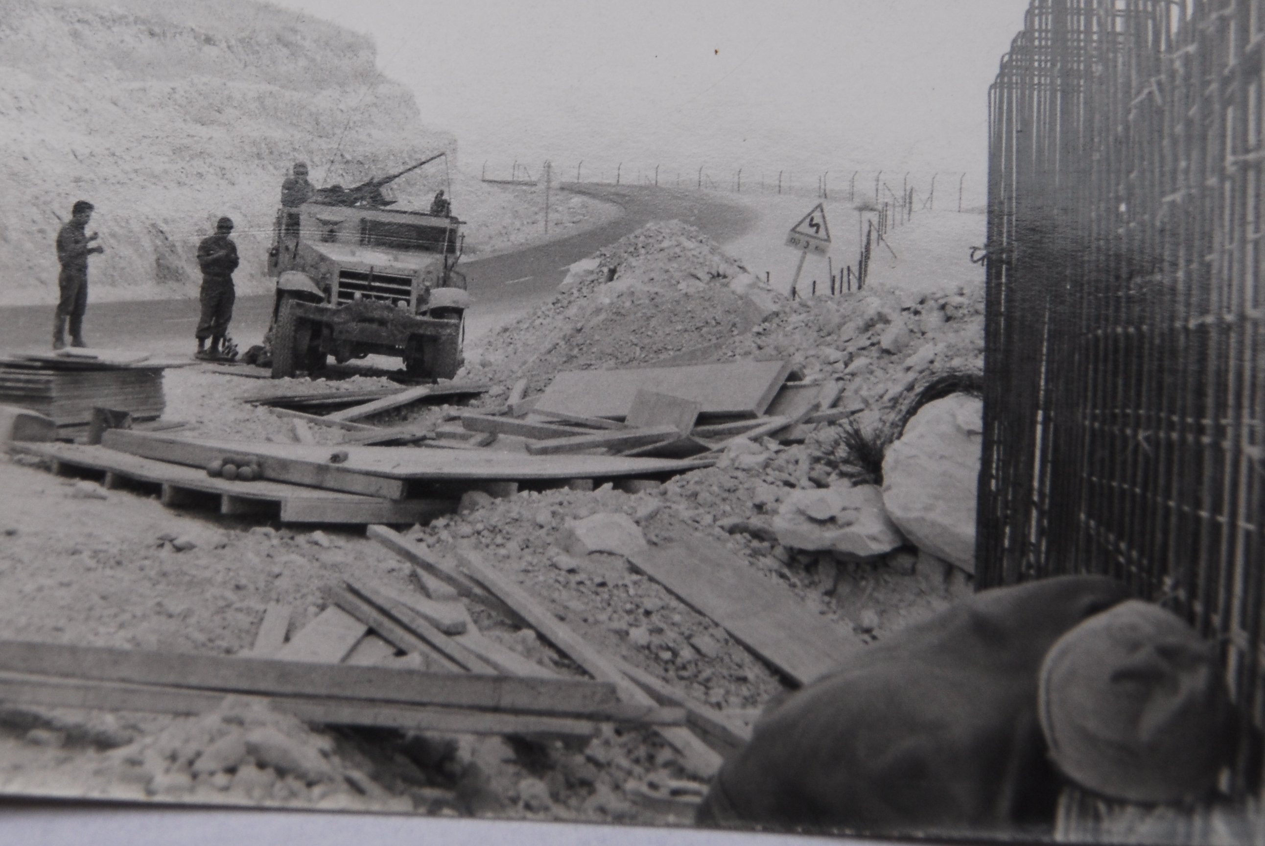 Israel Defense Forces